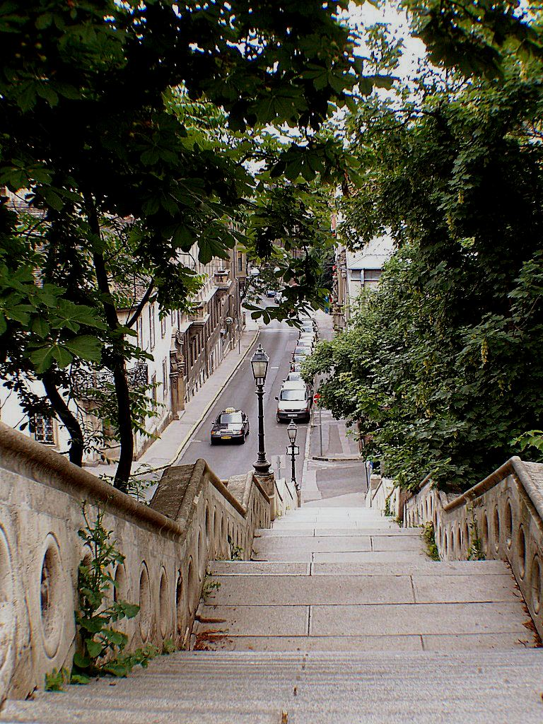 Looking down the Jezsuita Stairs, Budapest.